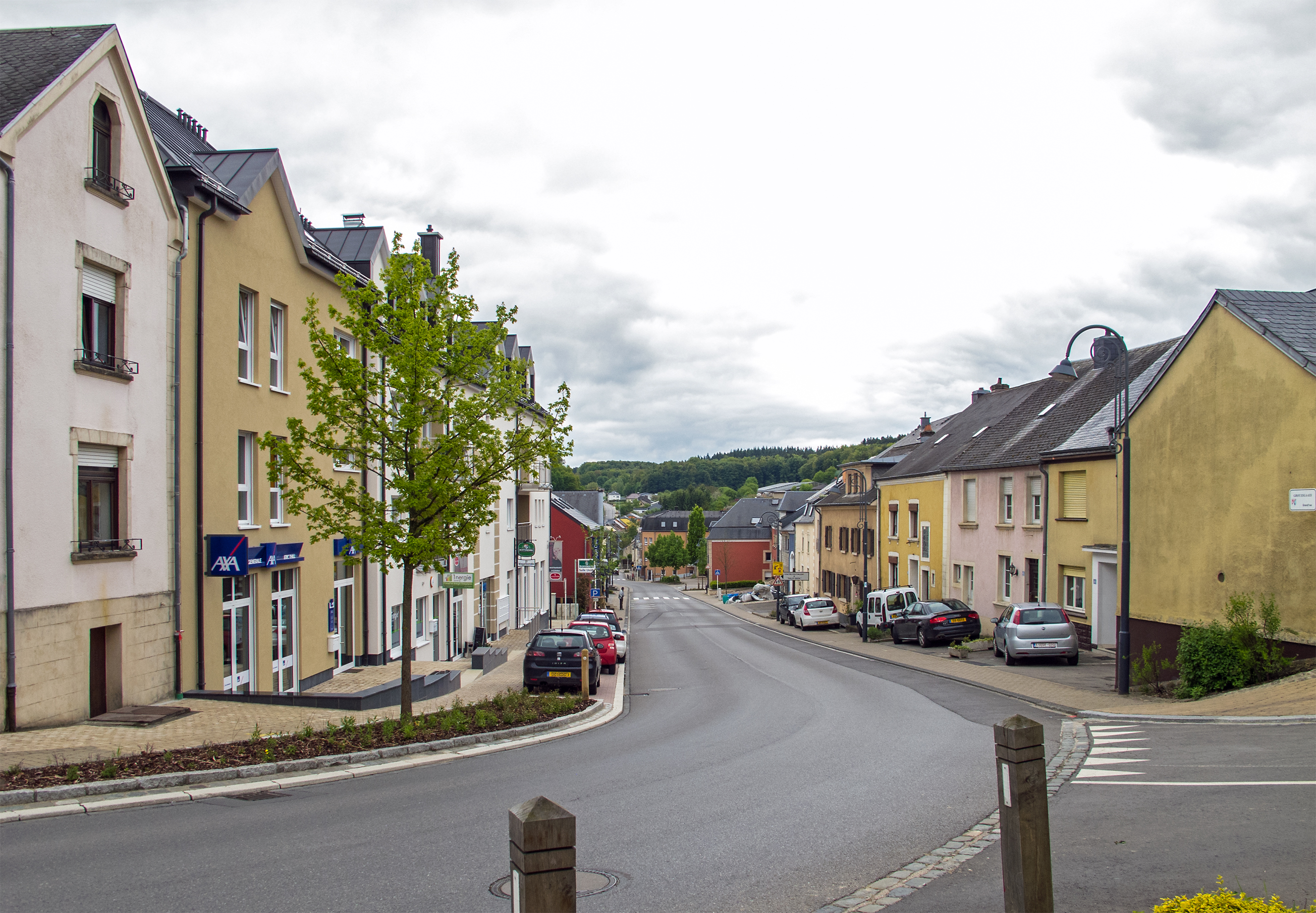 View from the church through the Grand-Rue in Hobscheid